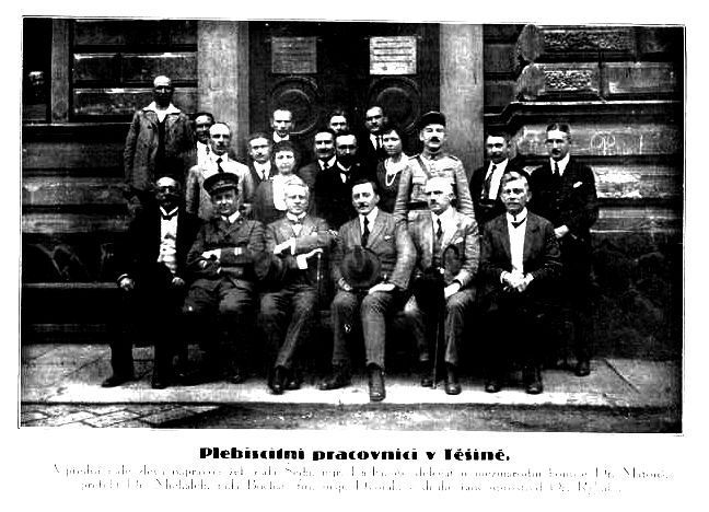 Czech plebiscite workers in Cieszyn during the dispute between Czechoslovakia and Poland over Cieszyn Silesia in 1918 - 1920.